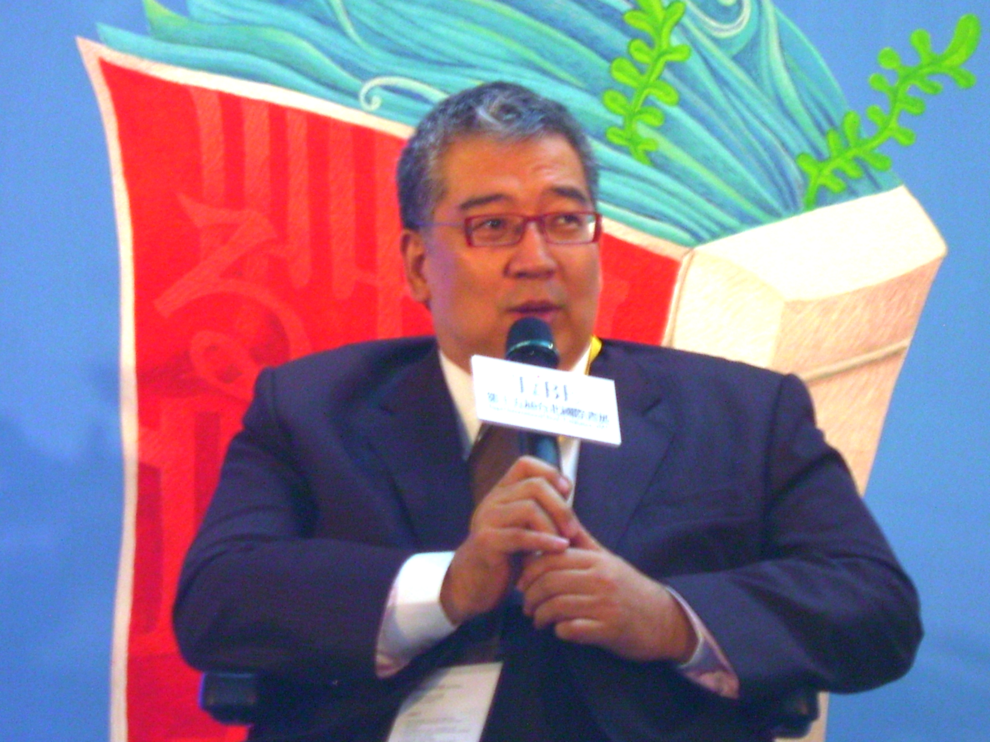 Ming-yi Hao, founder of Taipei Book Fair Foundation.